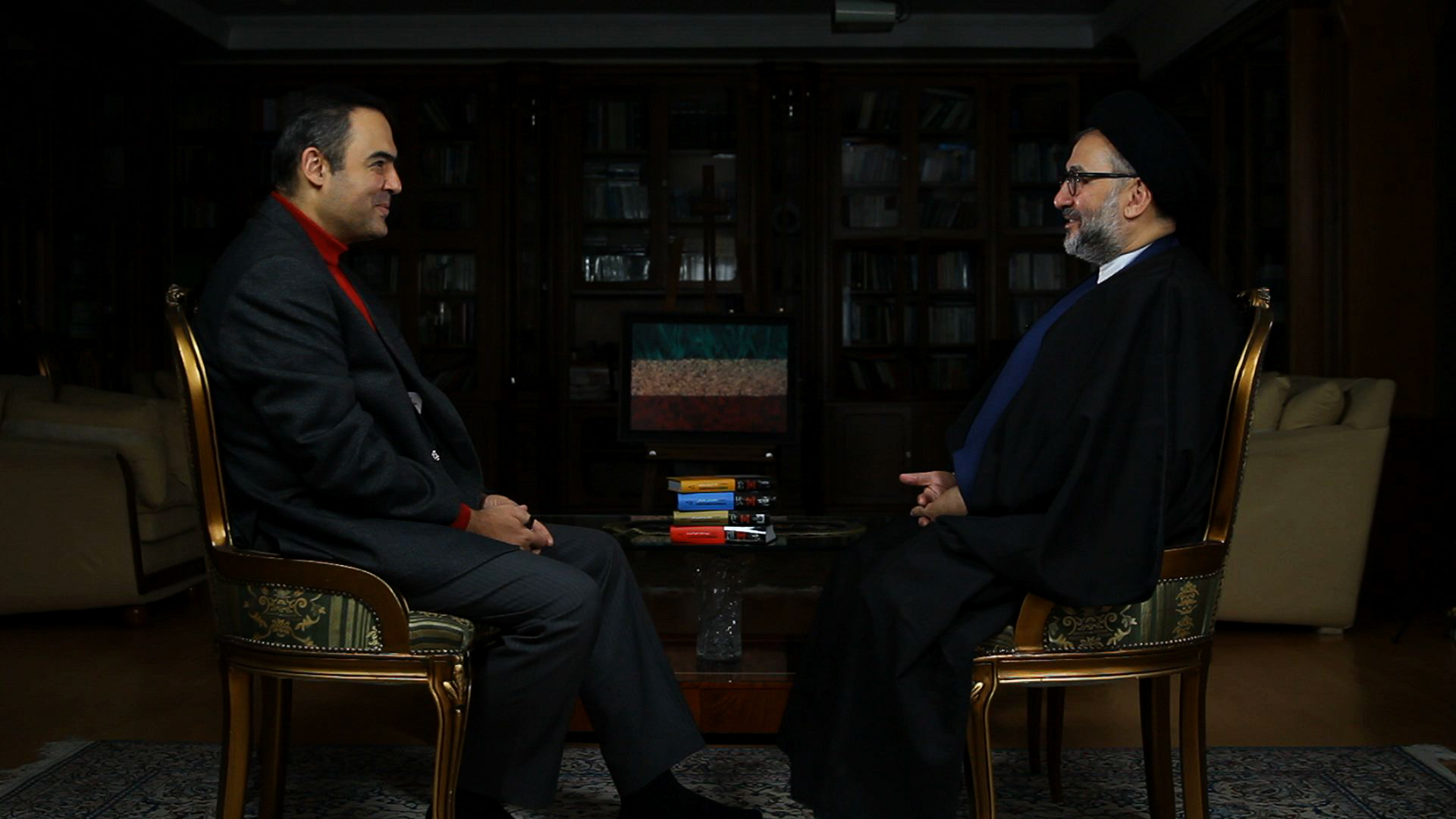 تصاویر در حین ضبط برنامه خشت خام از مجموعه تاریخ آنلاین گرفته شده‌اند.